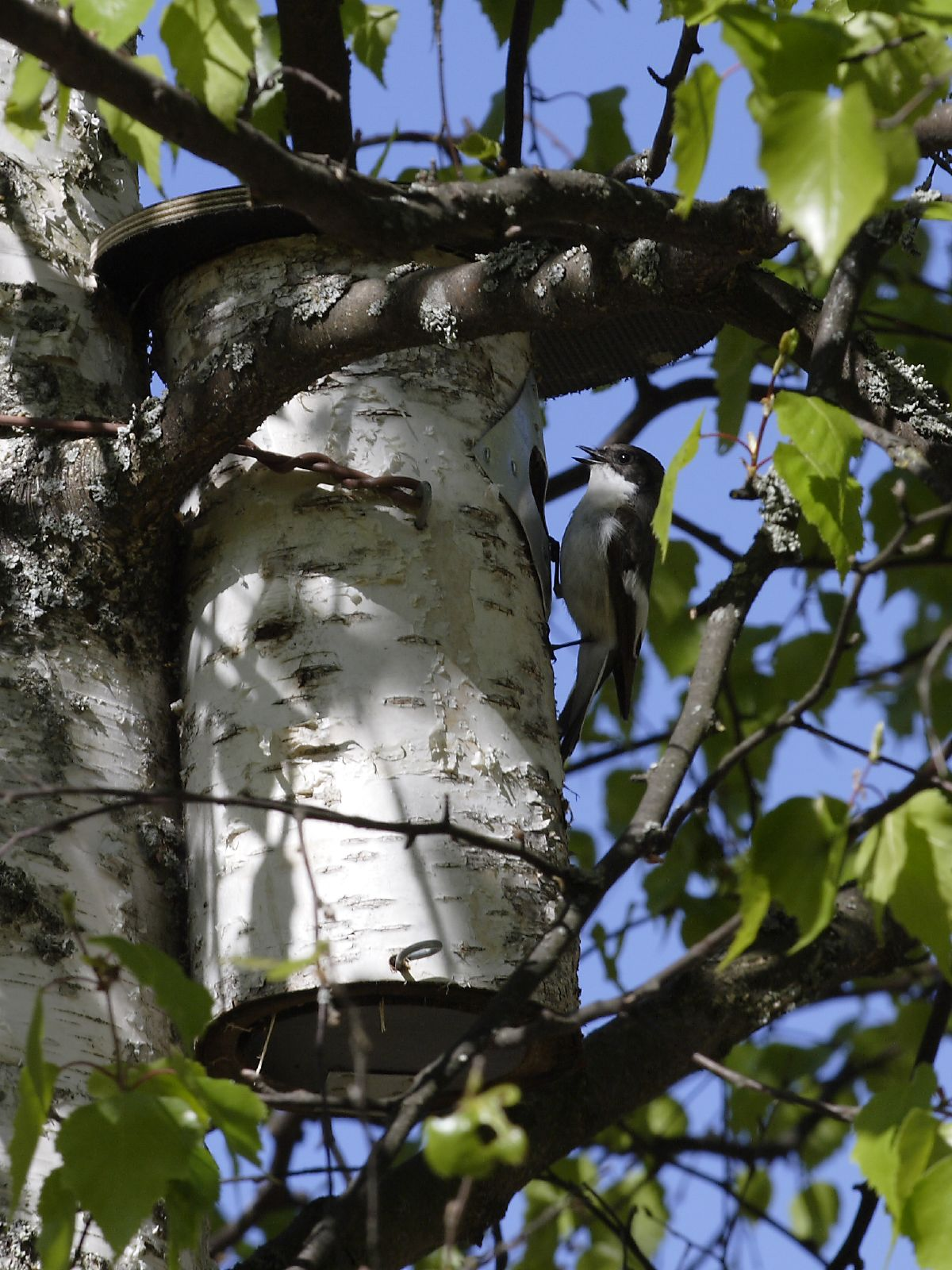 Pied flycatcher (Ficedula hypoleuca) in his new home in Vantaa, Finland.